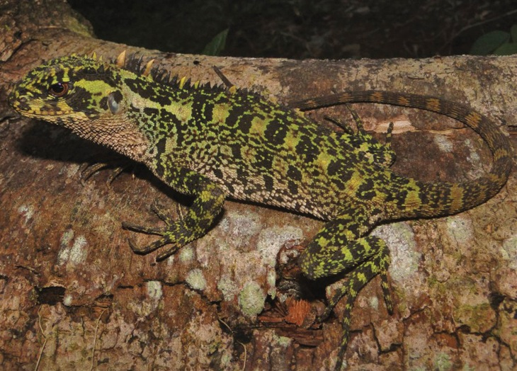 Adult female of Enyalioides binzayedi (CORBIDI 08787). Photograph by P.J. Venegas.